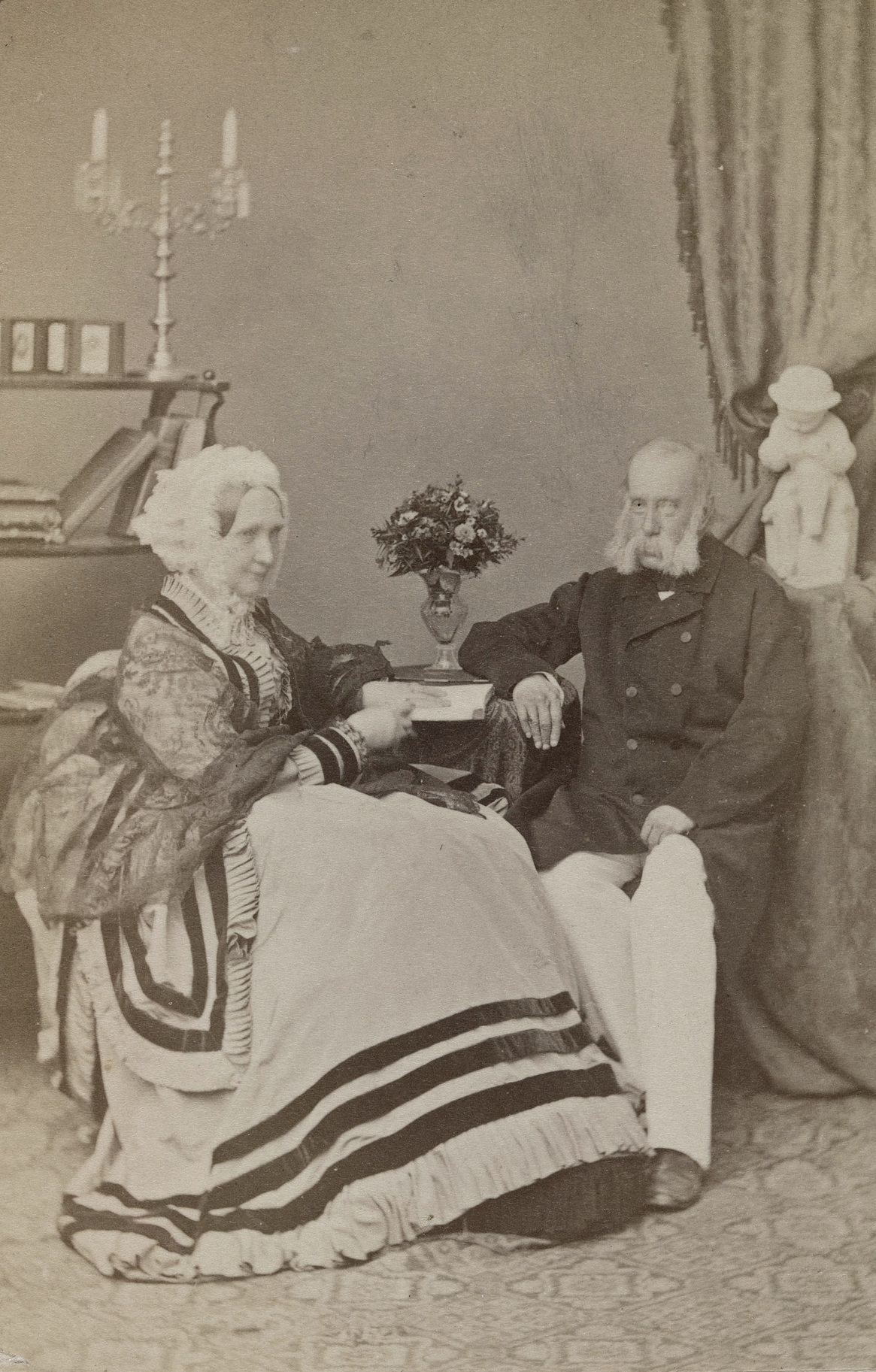 The Archduke Franz Karl and the Archduchess Sophie of Austria